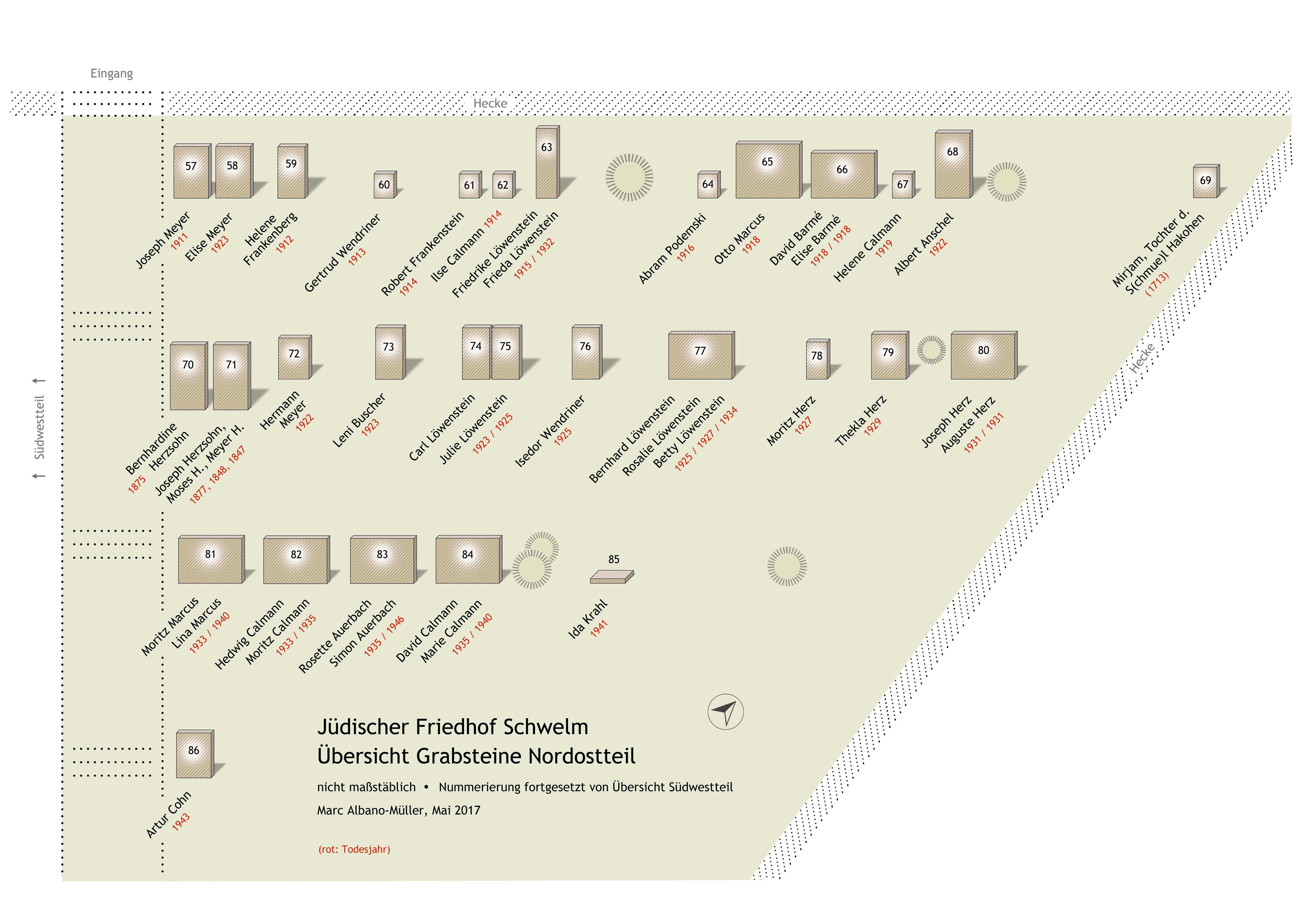 Jewish cemetery Schwelm - Site plan, Part 2 (Northeastern part)